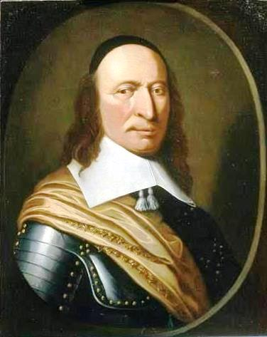 Portrait of Peter Stuyvesant. All of the prints of Stuyvesant from the 19th C are said to be based on this painting.